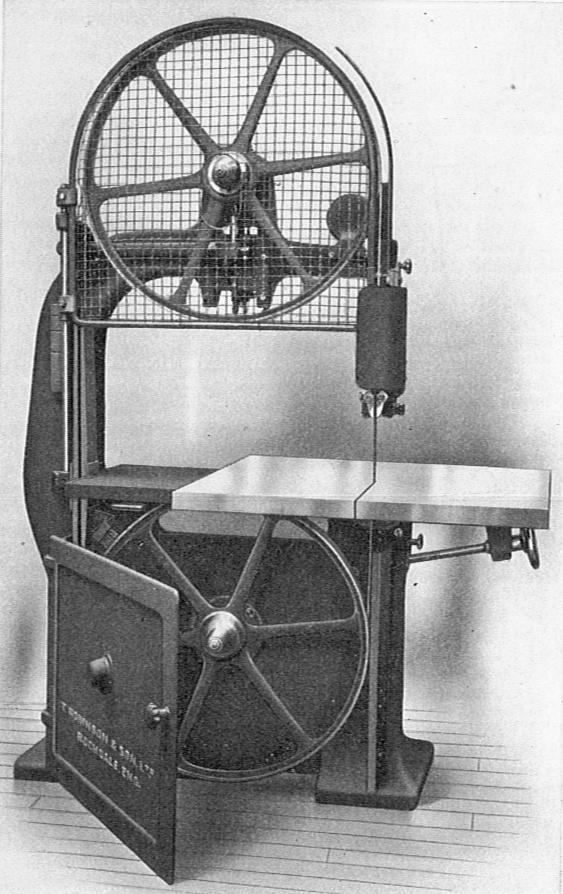 Fig. 17 36 inch (wheel diameter) bandsaw, used for general woodworking.